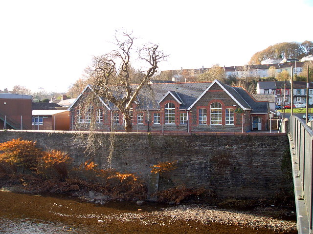 Ysgol Rhyd Y Grug. This school is the Welsh Medium Primary School for the lower Merthyr Valley and is situated at the confluence of the Taff and Taff Bargoed Rivers